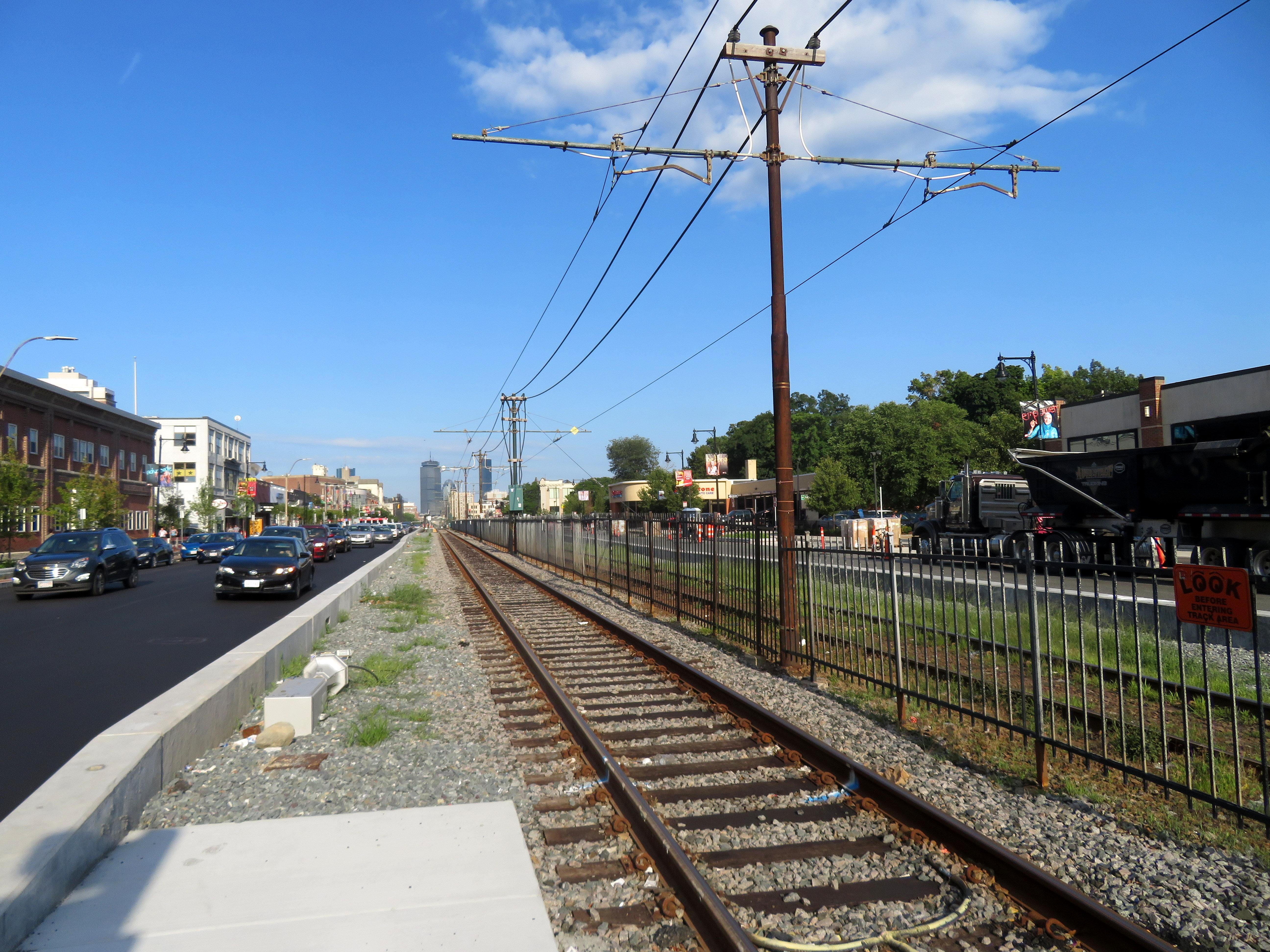 Retaining wall at the future consolidated Pleasant Street station in July 2019